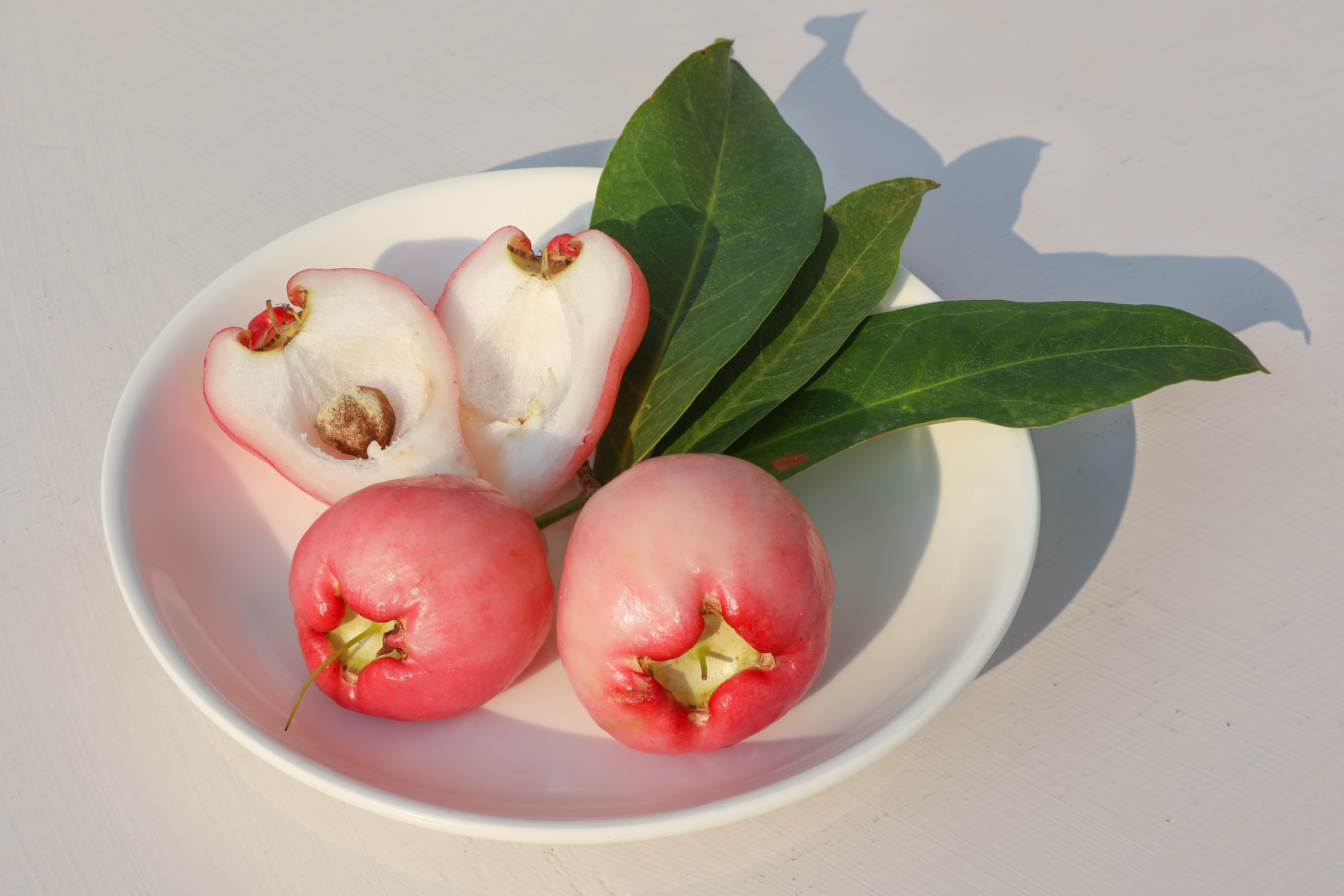 Syzygium samarangense (Java apple), edible fruit on a plate, with a cut cross section.